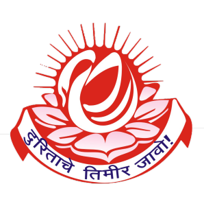 Logo